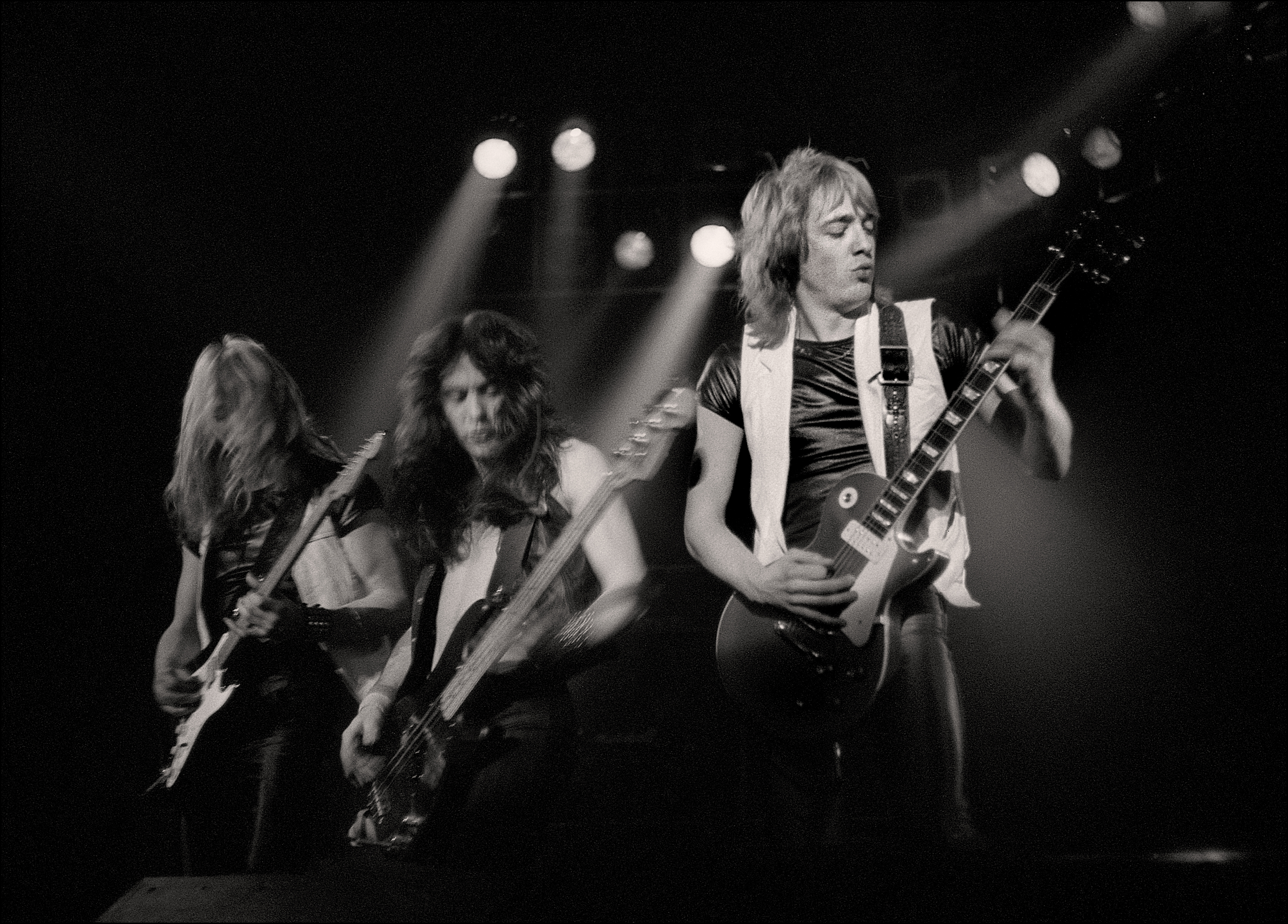 Iron Maiden performing live at Manchester Apollo (1980).